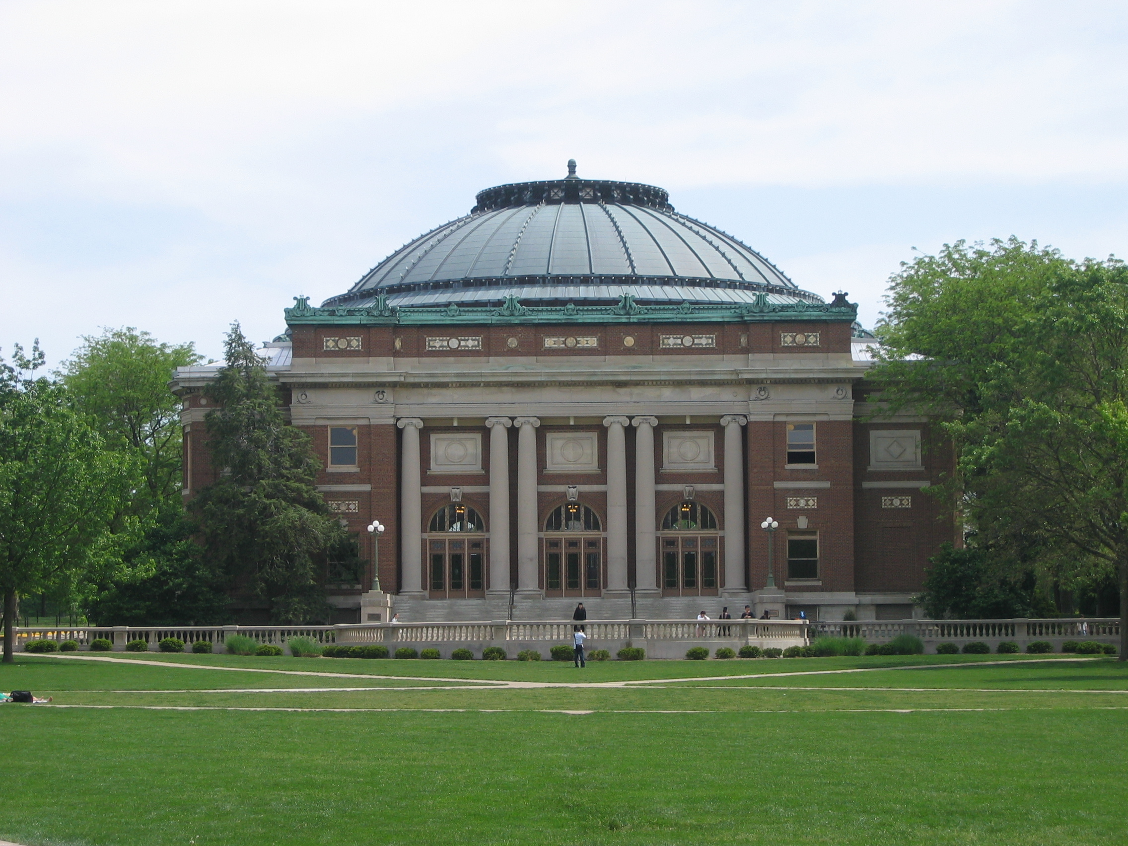 Taken by me in summer 2005.